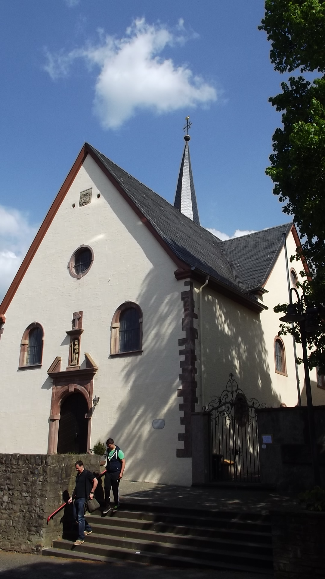 Exterior of the roman catholic church in Perl, Saarland, Germany